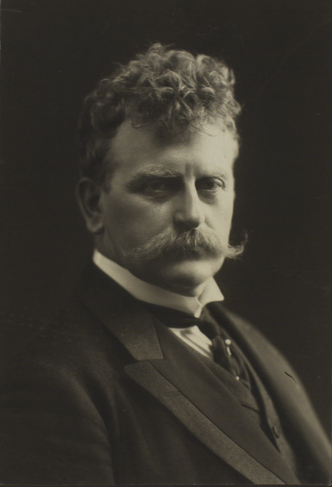 Danish surgeon, physician, Minister of Education, Rector of the University of Copenhagen Thorkild Rovsing (1862-1927)